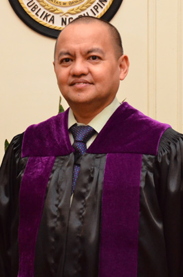 Official portrait of a Justice from the Supreme Court of the Philippines